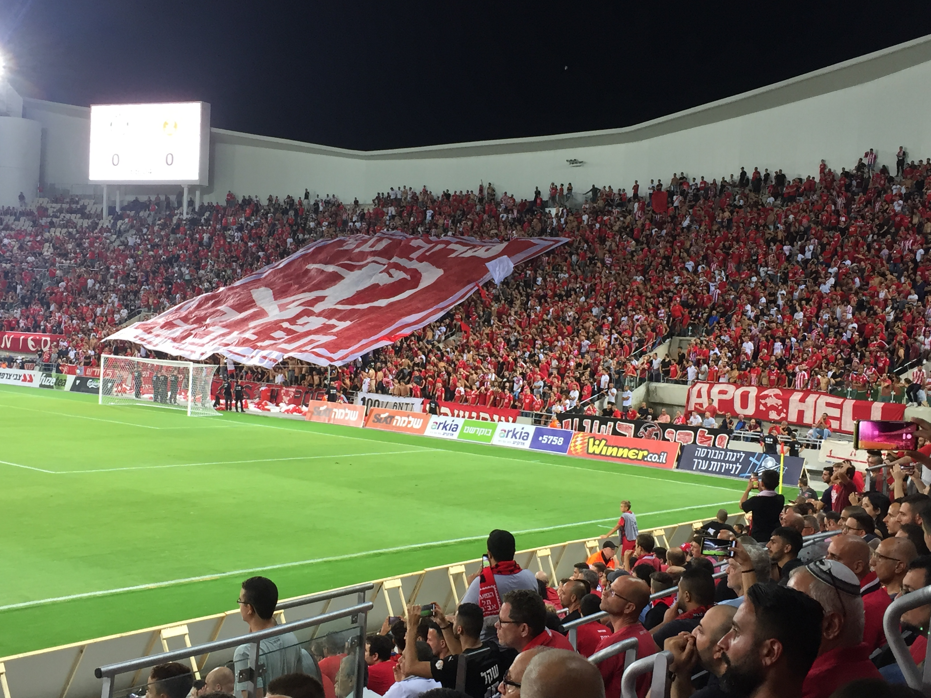 Hapoel Tel Aviv FC Fans in Bloomfield Stadium, August 2019